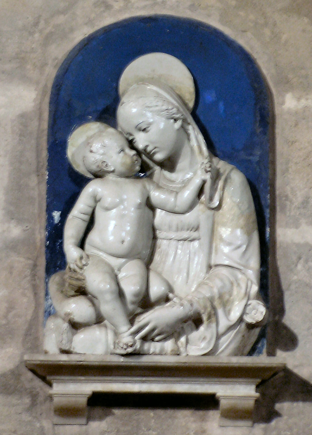 Andrea della Robbia workshop:Our Lady of the Cushion, Cathedral of Seville